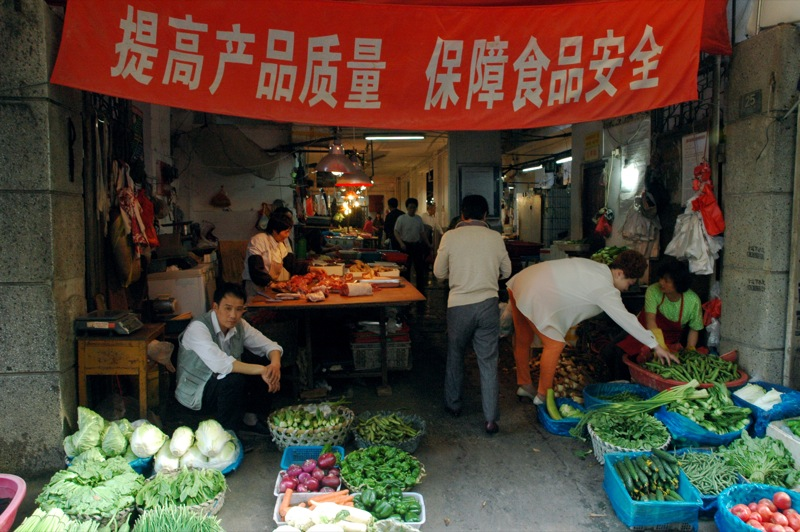 I found an alley and while wandering down it passed this small wet market.